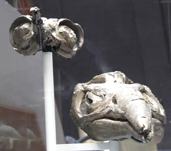 Temnodontosaurus trigonodon (below) and Eurhinosaursu longirostris (above) in the Smns (Stuttgart)